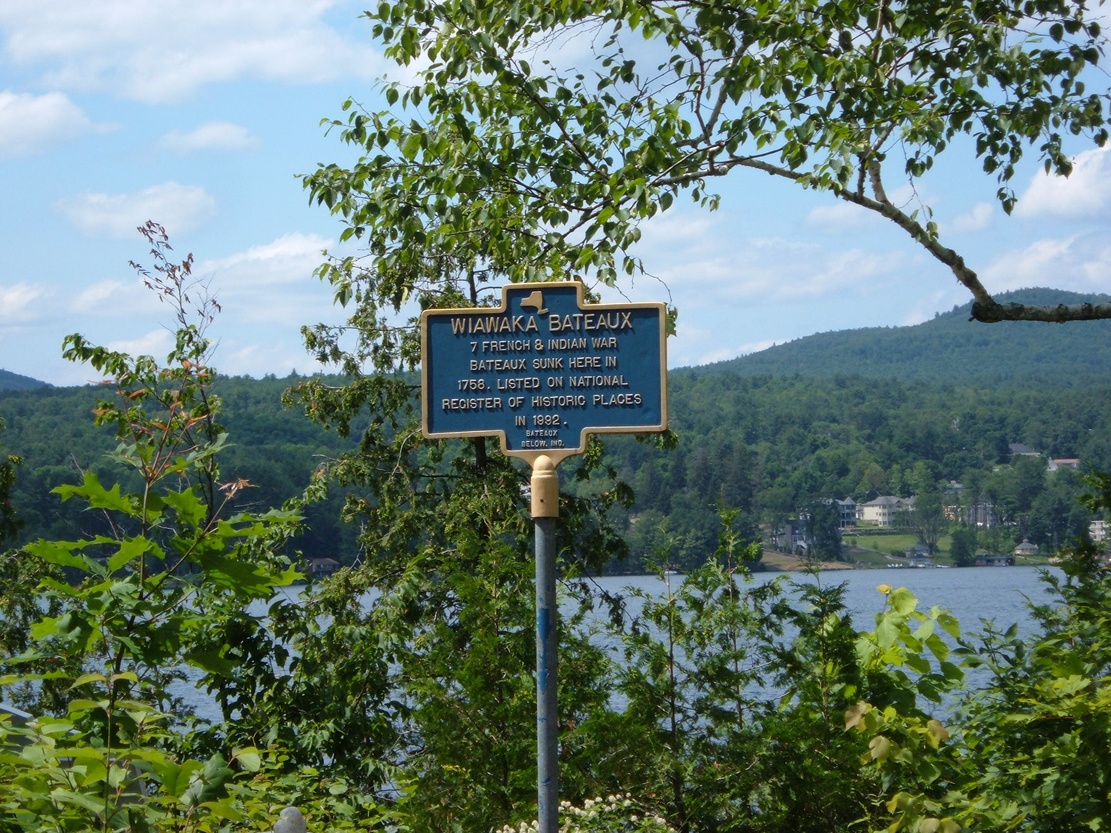 author: 4 the Love of History, taken by myself, Wiawaka marker